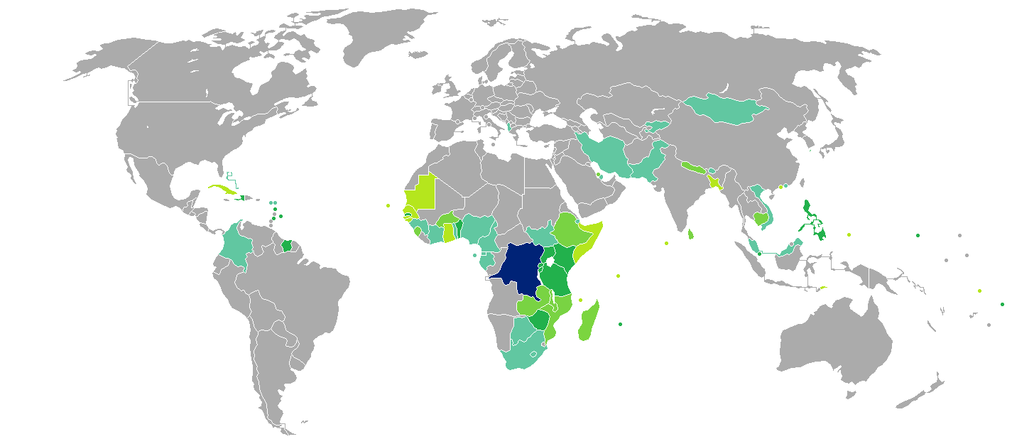 DR Congo visa-free & VOA travel